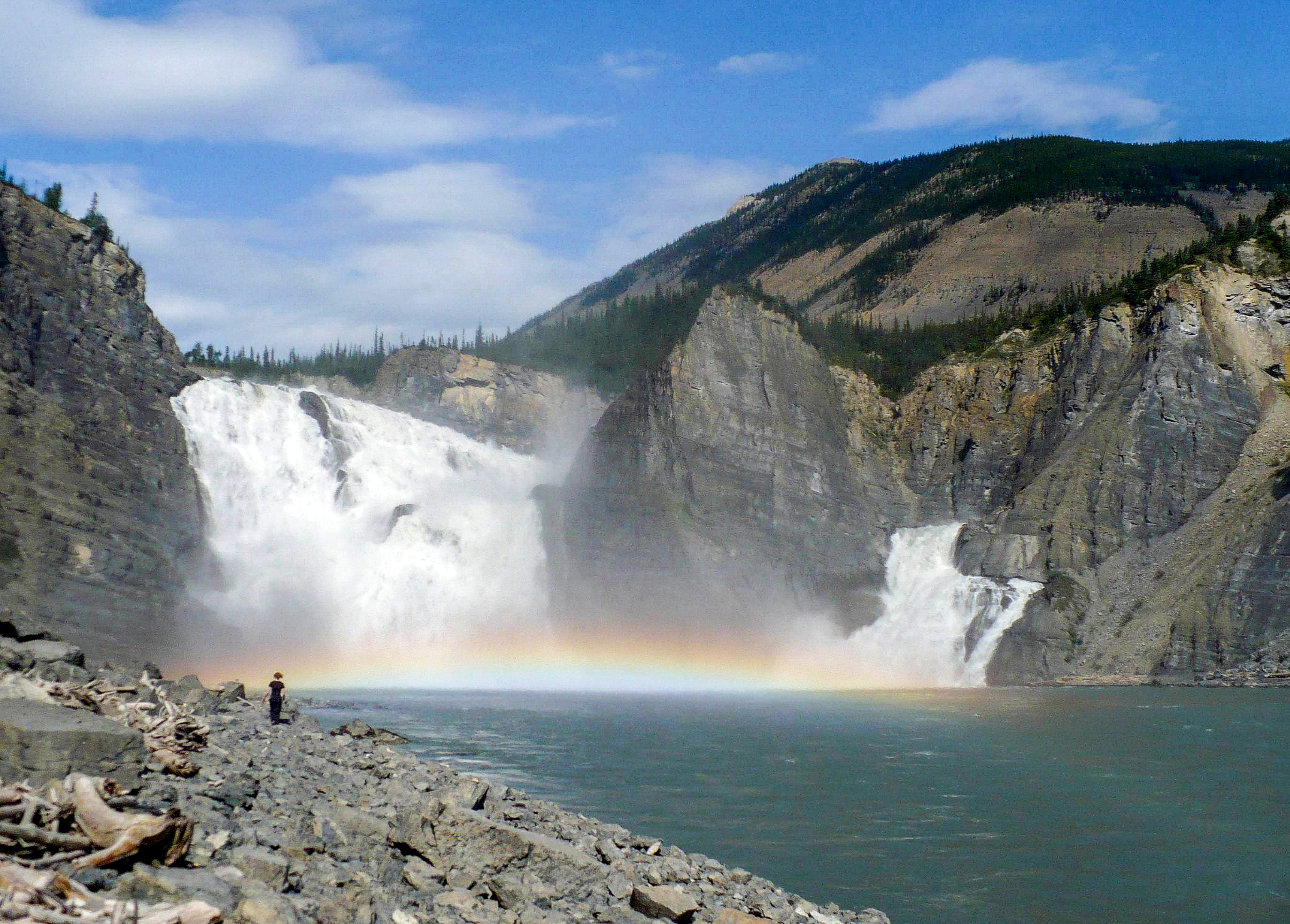 Virginia Falls (Nailicho), Nahanni National Park Reserve, Northwest Territories, Canada